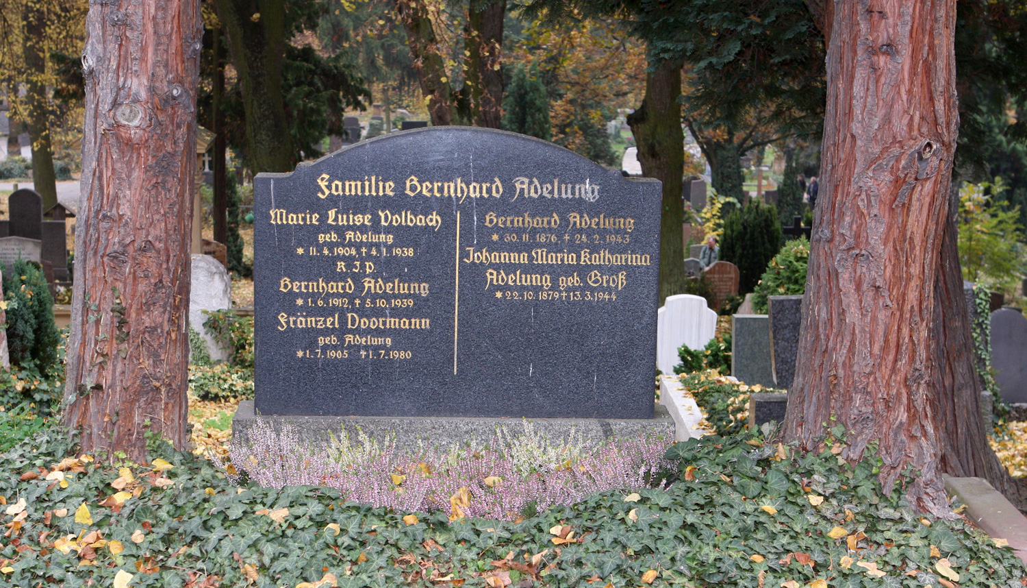 Tomb from the Adelung family. Bernhard Adelung (1876-1943) was mayor in Mainz and "Staatspräsident des Volksstaates Hessen" from 1928 to 1931.